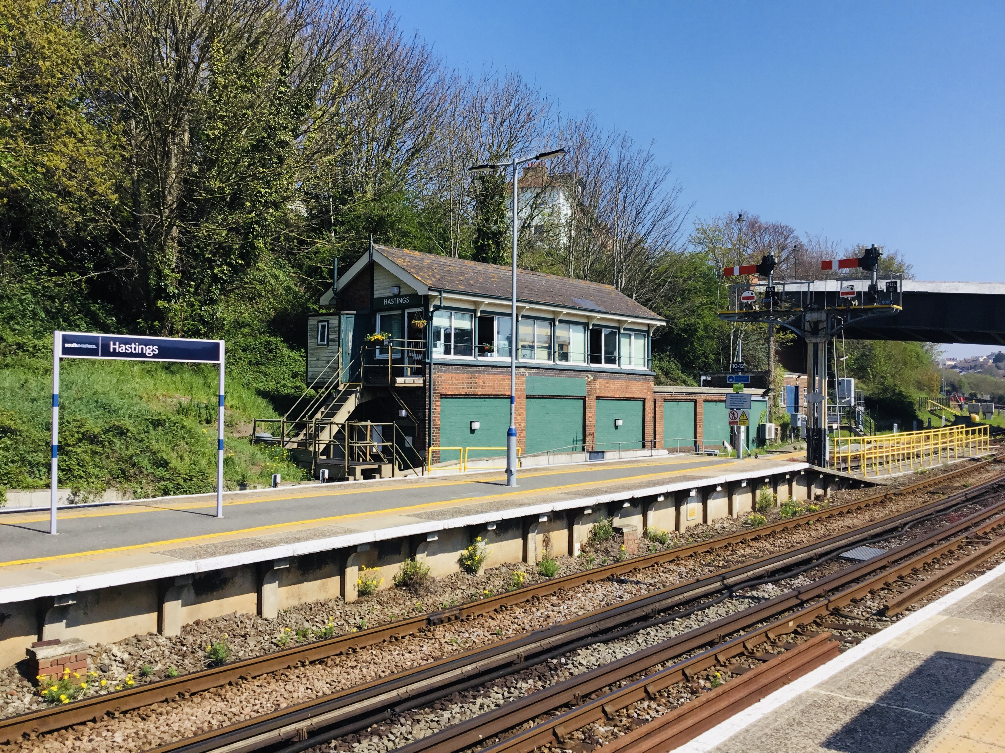 Hastings signal box (EDL) at the eastern end of Hastings railway station. The semaphore signals to the right control the tracks towards Ore out of platforms 3 and 4.